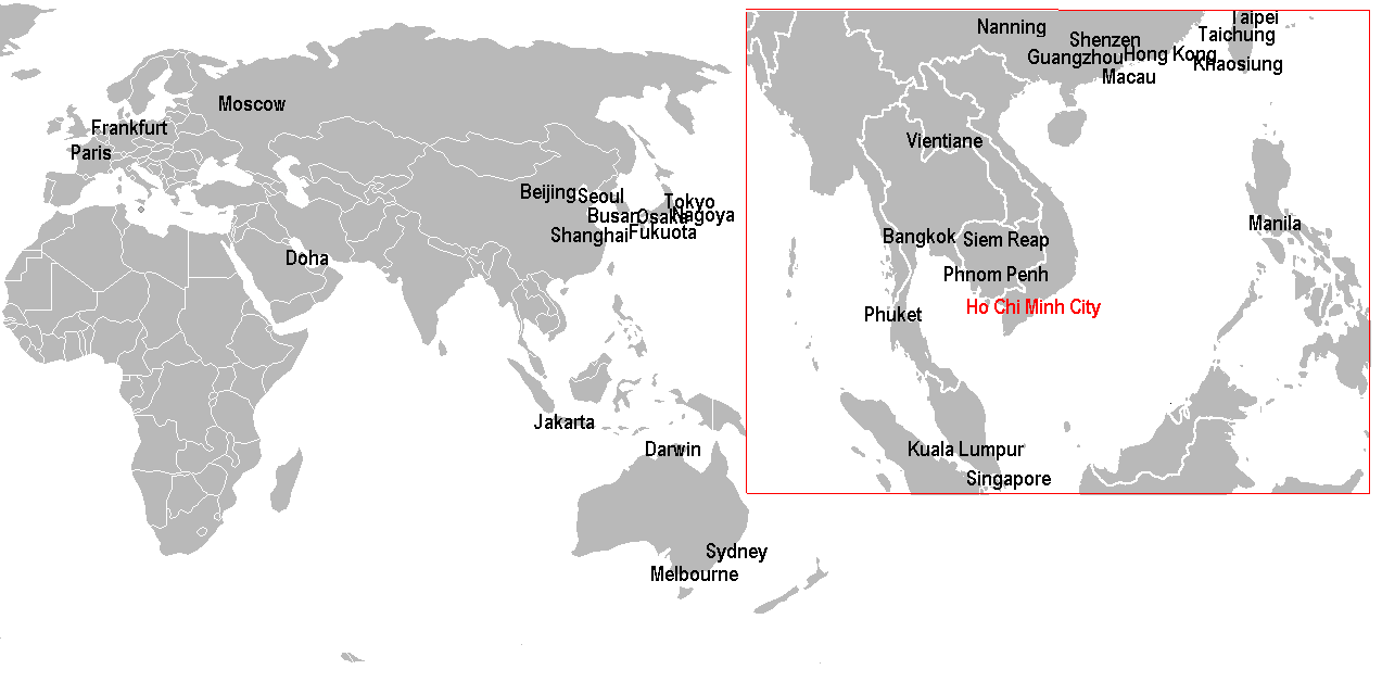 International cities with direct flights to SGN